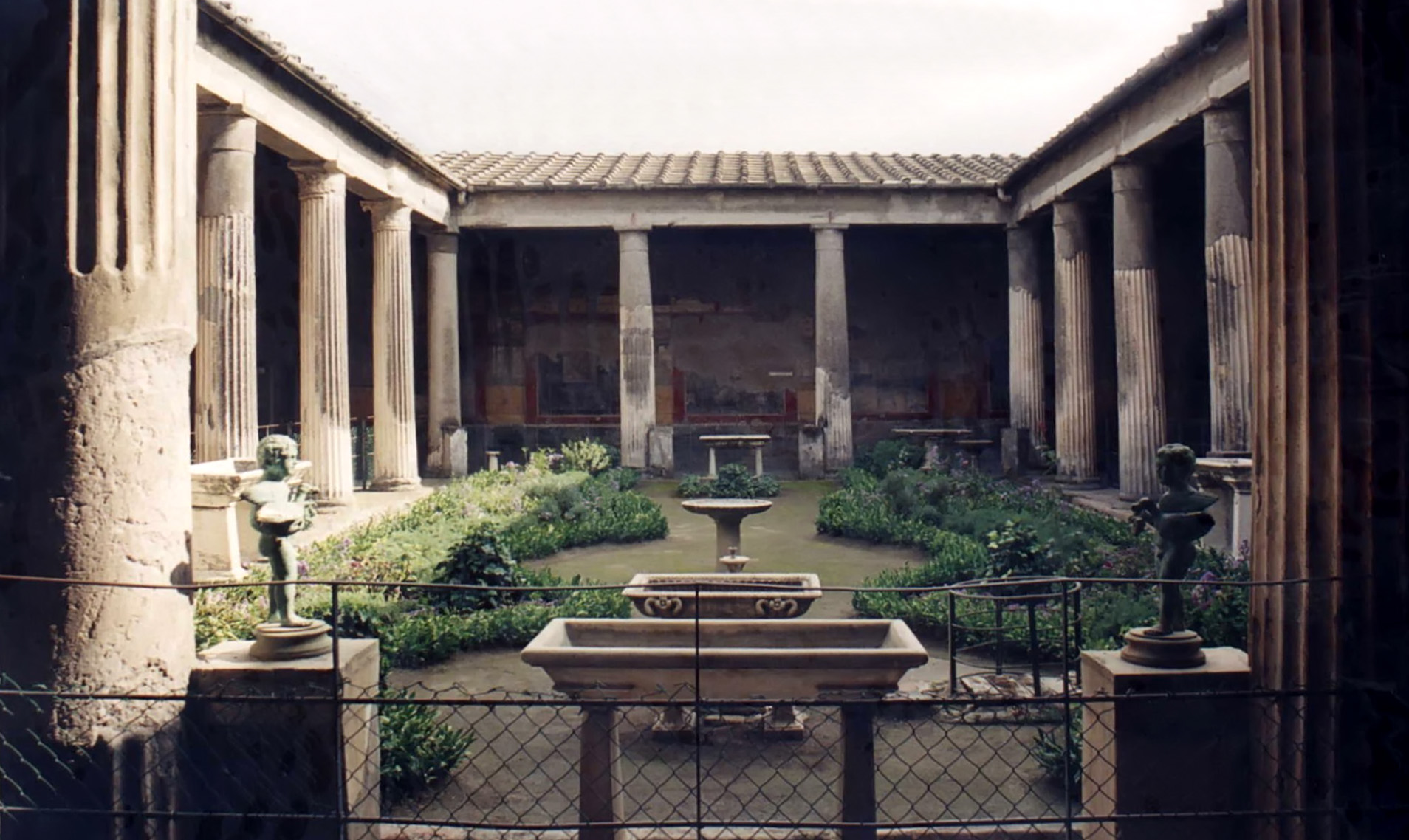 House of Vettii in Pompei, Italy